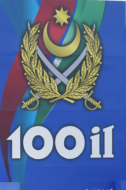 A solemn military parade has been held in Baku to mark the centenary of the establishment of the Armed Forces of the Republic of Azerbaijan.